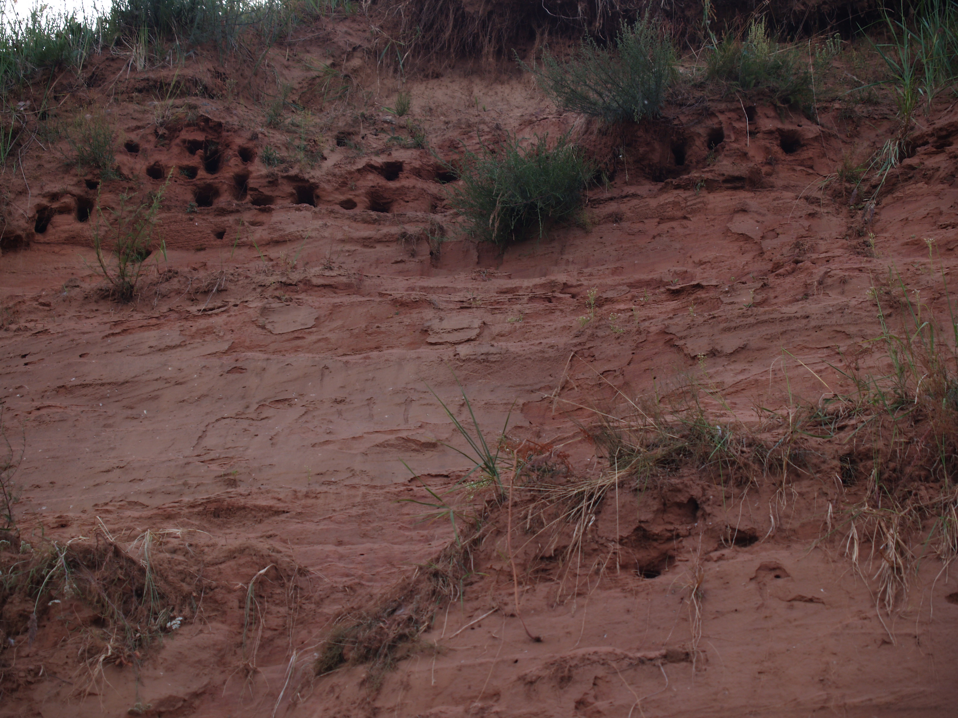 Kallaste sandstone outcrop with nest holes of Sand Martin (Riparia riparia).